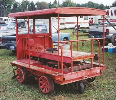 An early example of a Kalamazoo Manufacturing Company railroad motor car, seen at the South Haven, MI, USA Old Engine show in 1998.